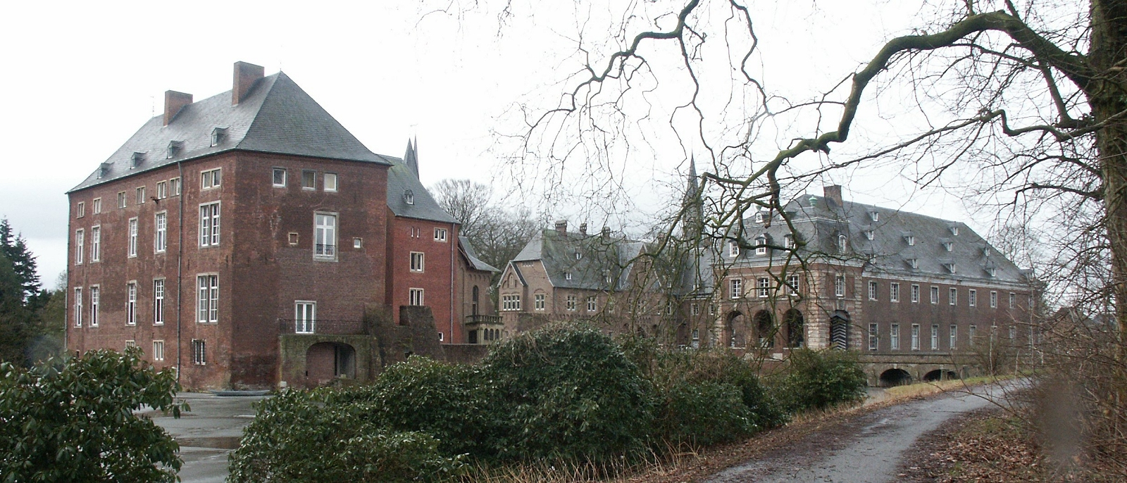 Wissen Castle in Weeze, Germany